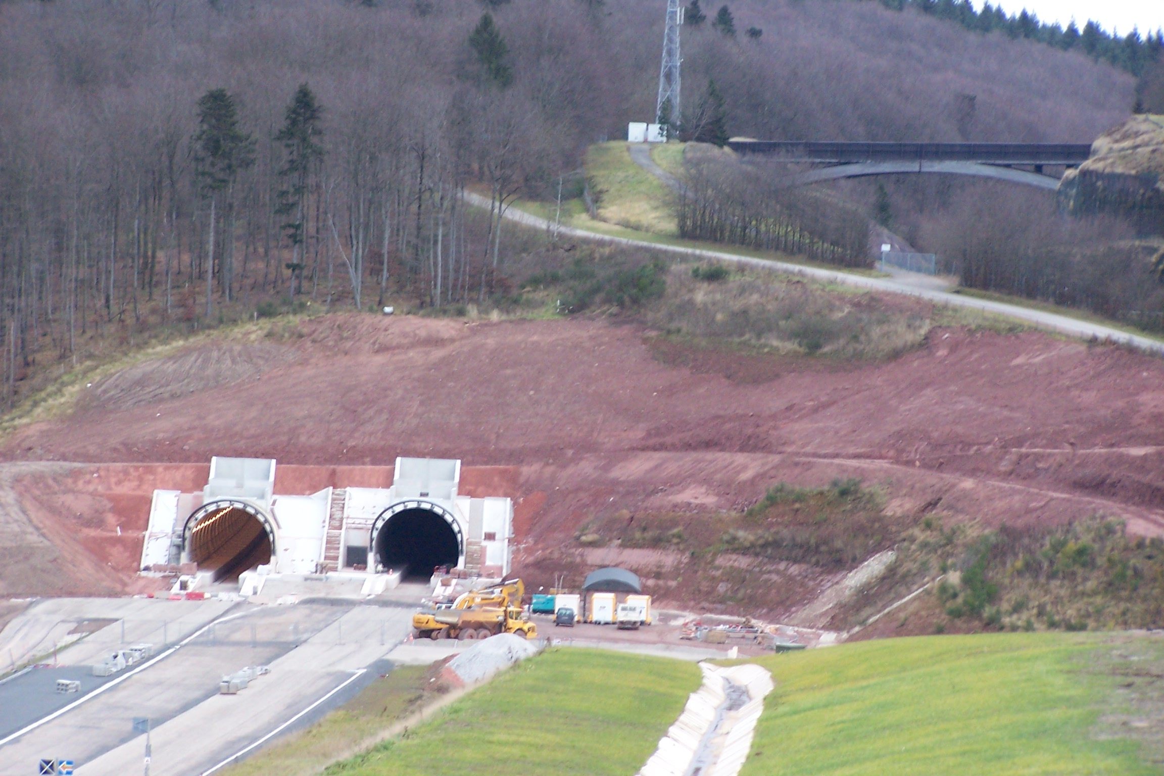 Western end of the Saverne Tunnel. The bridge in the upper-right passes over Autoroute A4.